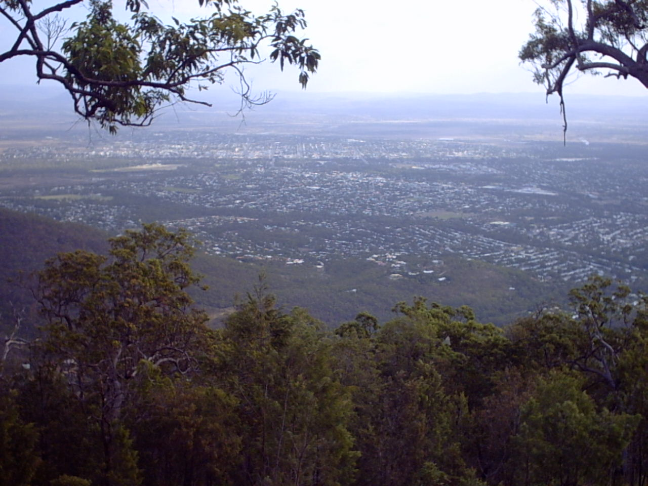 A picture of Rockhampton taken from Mount Archer.